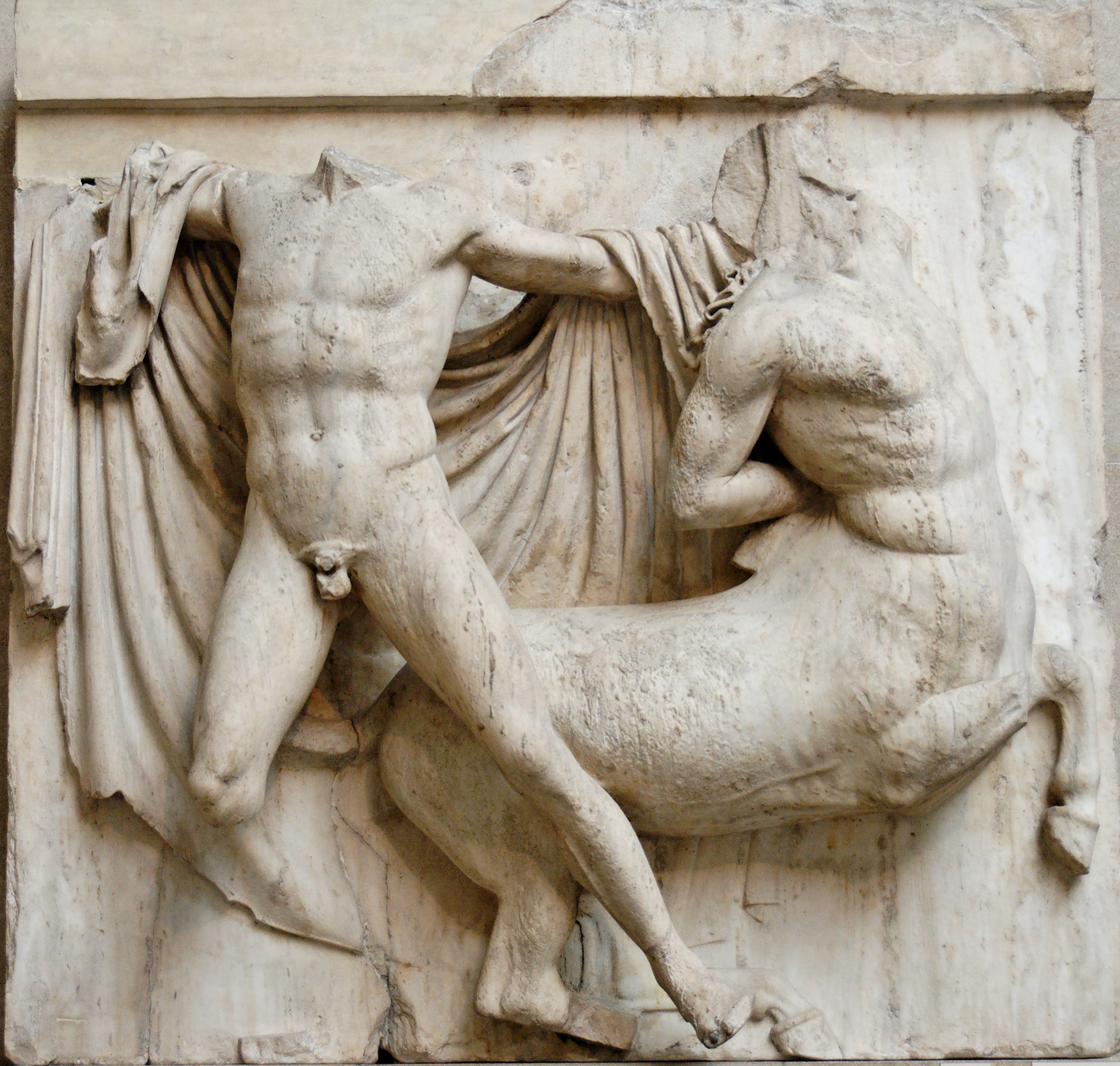 Lapith fighting a centaur. South Metope 27, Parthenon, ca. 447–433 BC.